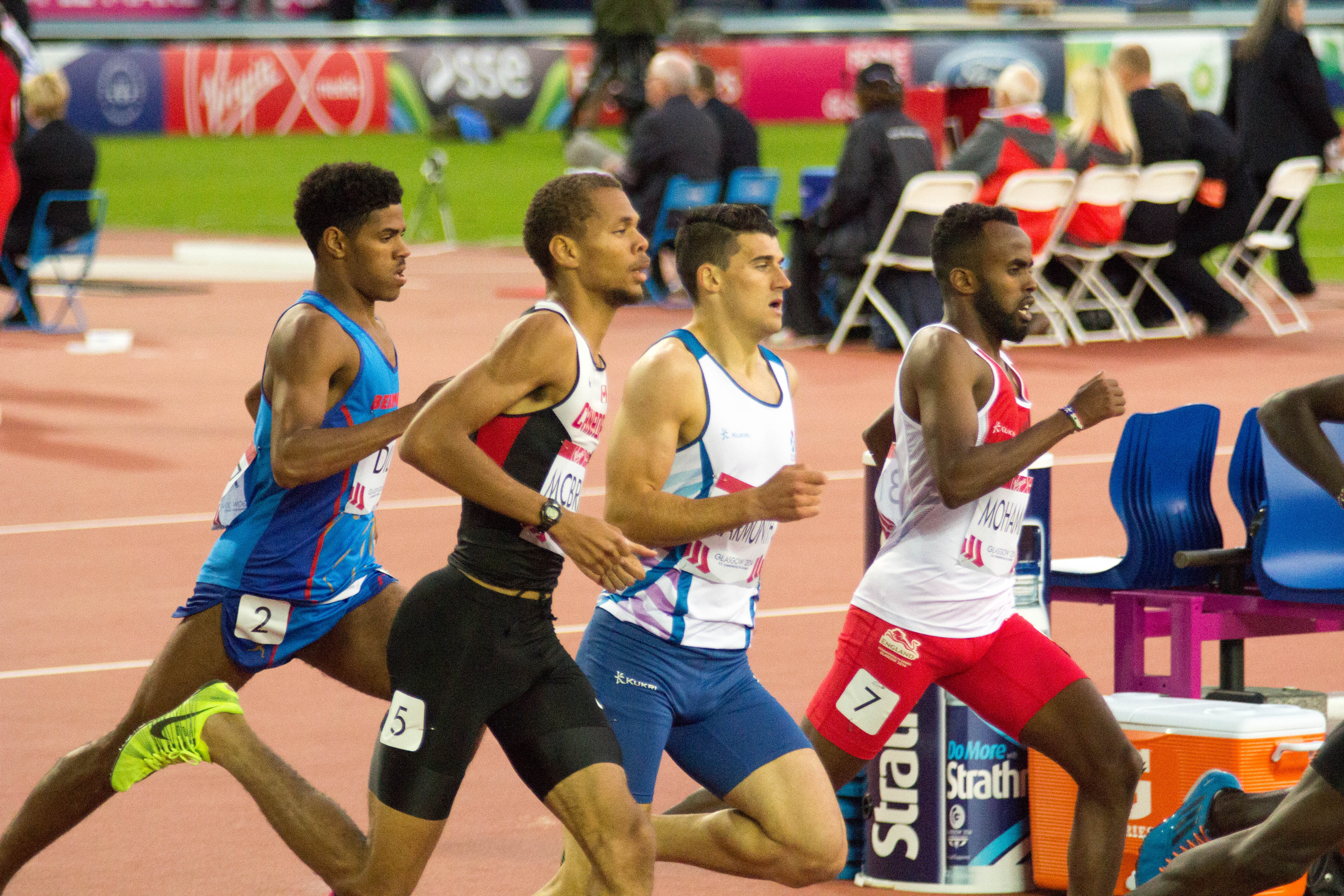 IMG_1841.jpg 2014 Commonwealth Games Day 4: Athletics